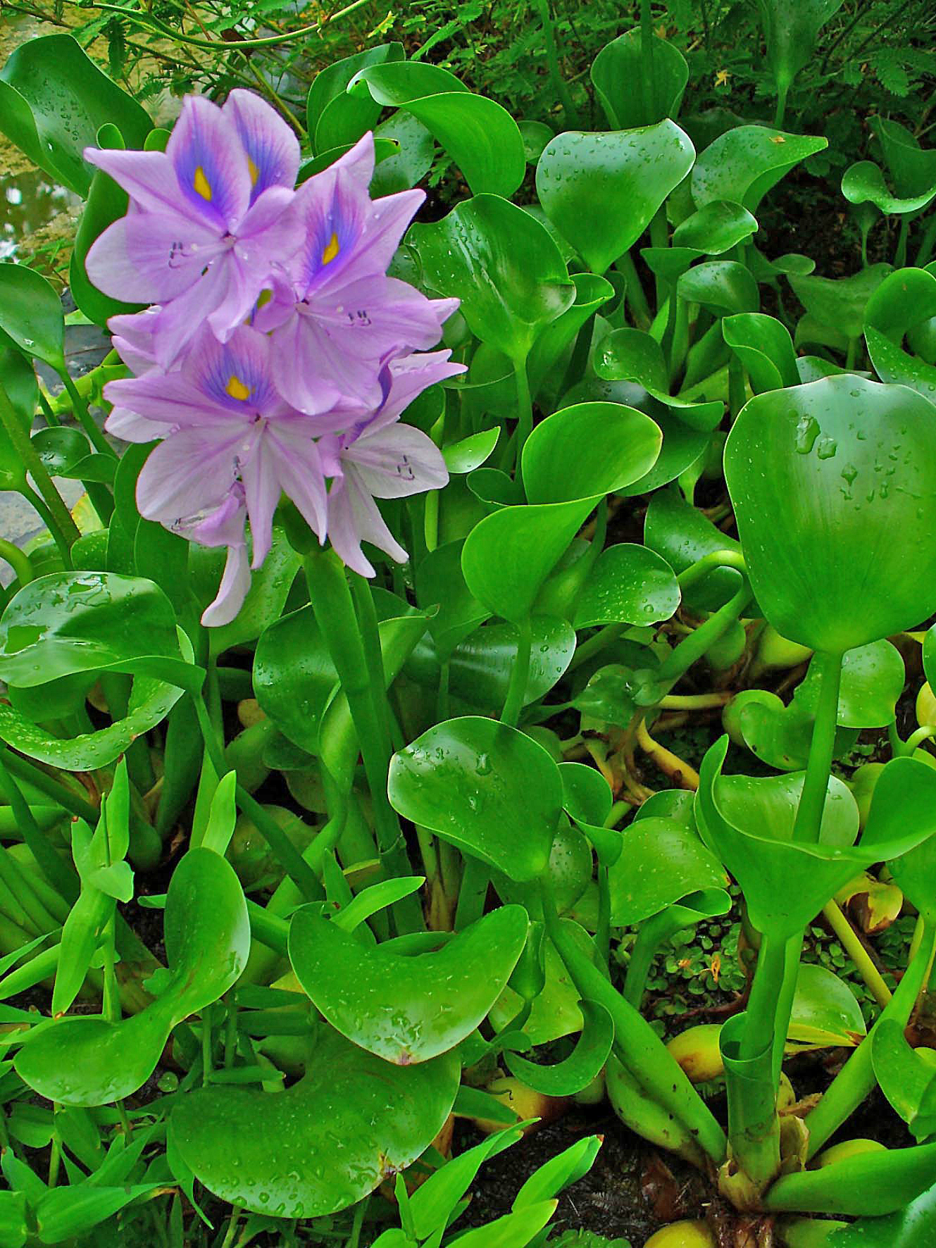 Eichhornia crassipes, Pontederiaceae, Common Water Hyacinth, habitus; Botanical Garden KIT, Karlsruhe, Germany. The plant is used in homeopathy as remedy: Eichhornia (Eich-c.)